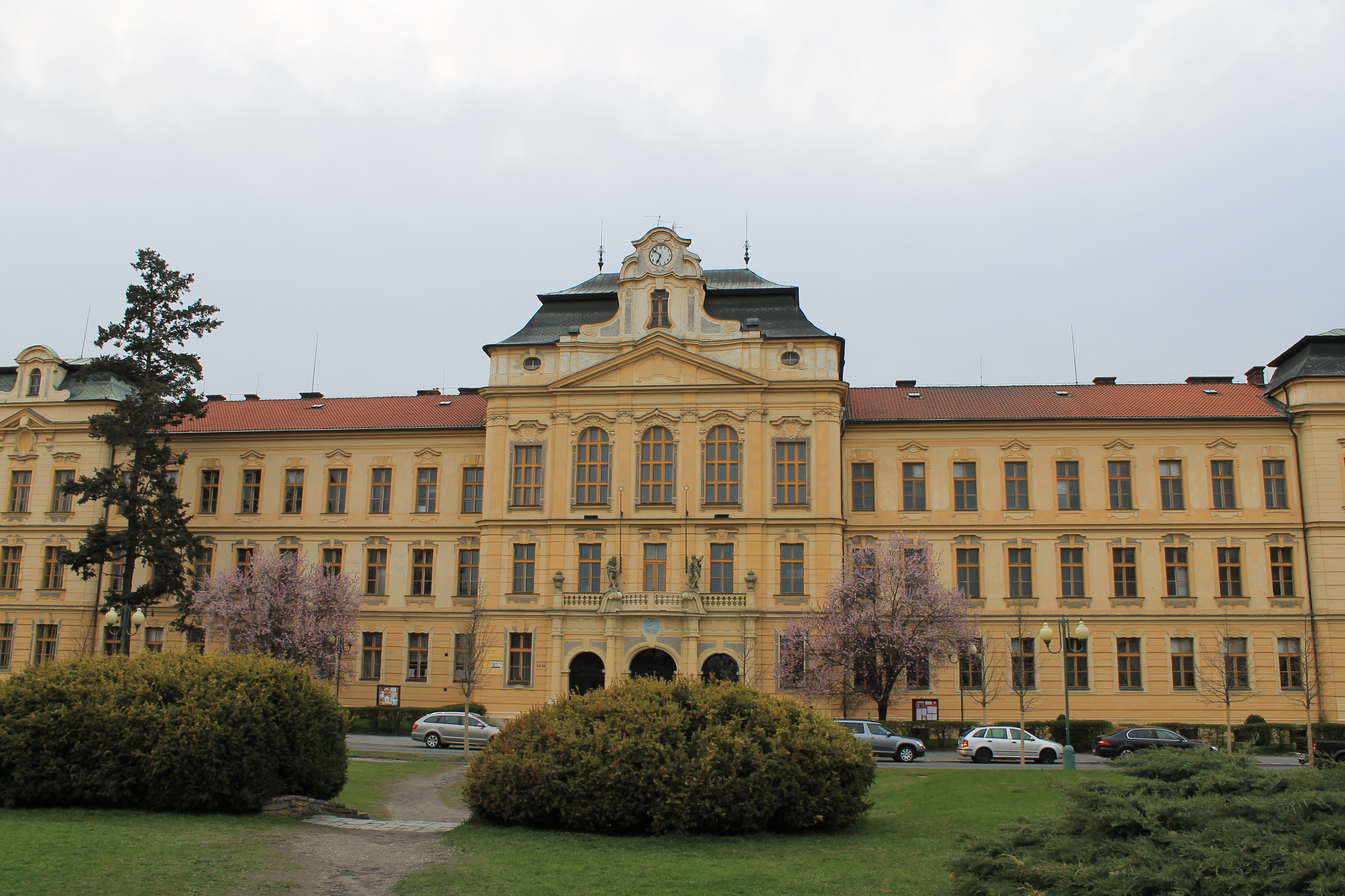 The main building of Gymnázium Dr. Josefa Pekaře grammar school in Mladá Boleslav, Czech Republic